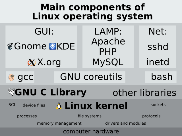 The diagram is rather intuitive than strict specification: The top - Application layer : big box with GUI, LAMP, Net and GCC, Core utils, bash - The post top row: GUI, LAMP, Net - task specific set of applications application. Could be optional on some systems. For example just web server would not have GUI. The second row: GCC, Core utils, bash - basic applications. GCC is optional for end user and essential for building system and upgrading from sources. In the Middle - Library layer On the bottom kernel with main components and hardware Inspired by